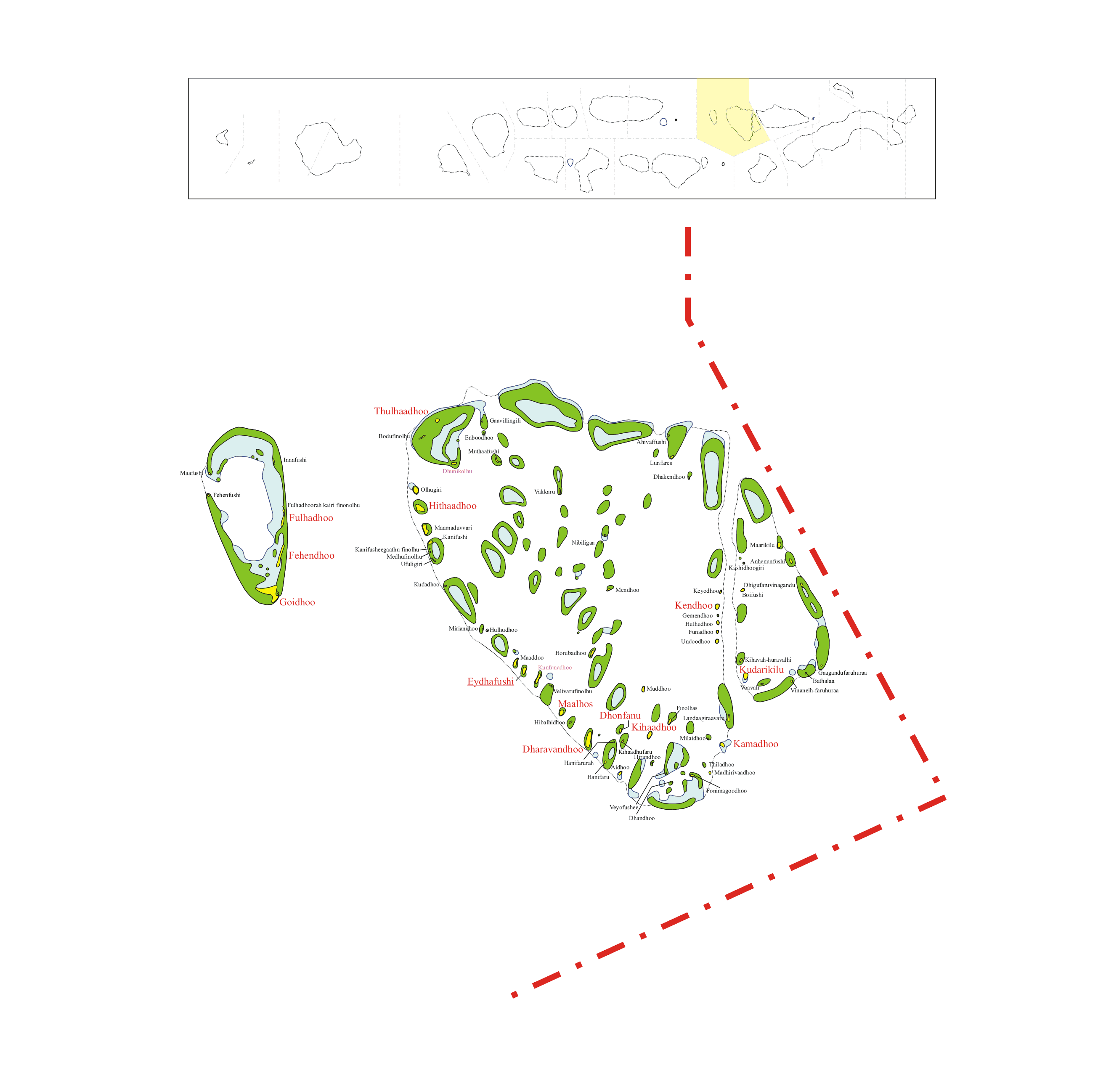 Map of Baa_Atoll